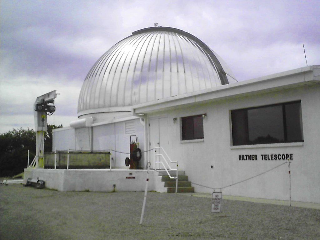 Borka Plumpster, Photo taken of the MDM Hiltner 2.4 m Telescope